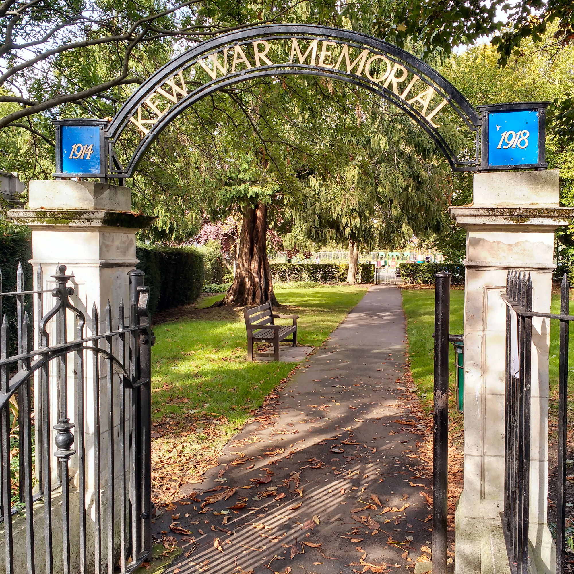 Kew War Memorial Garden, Westerly Ware